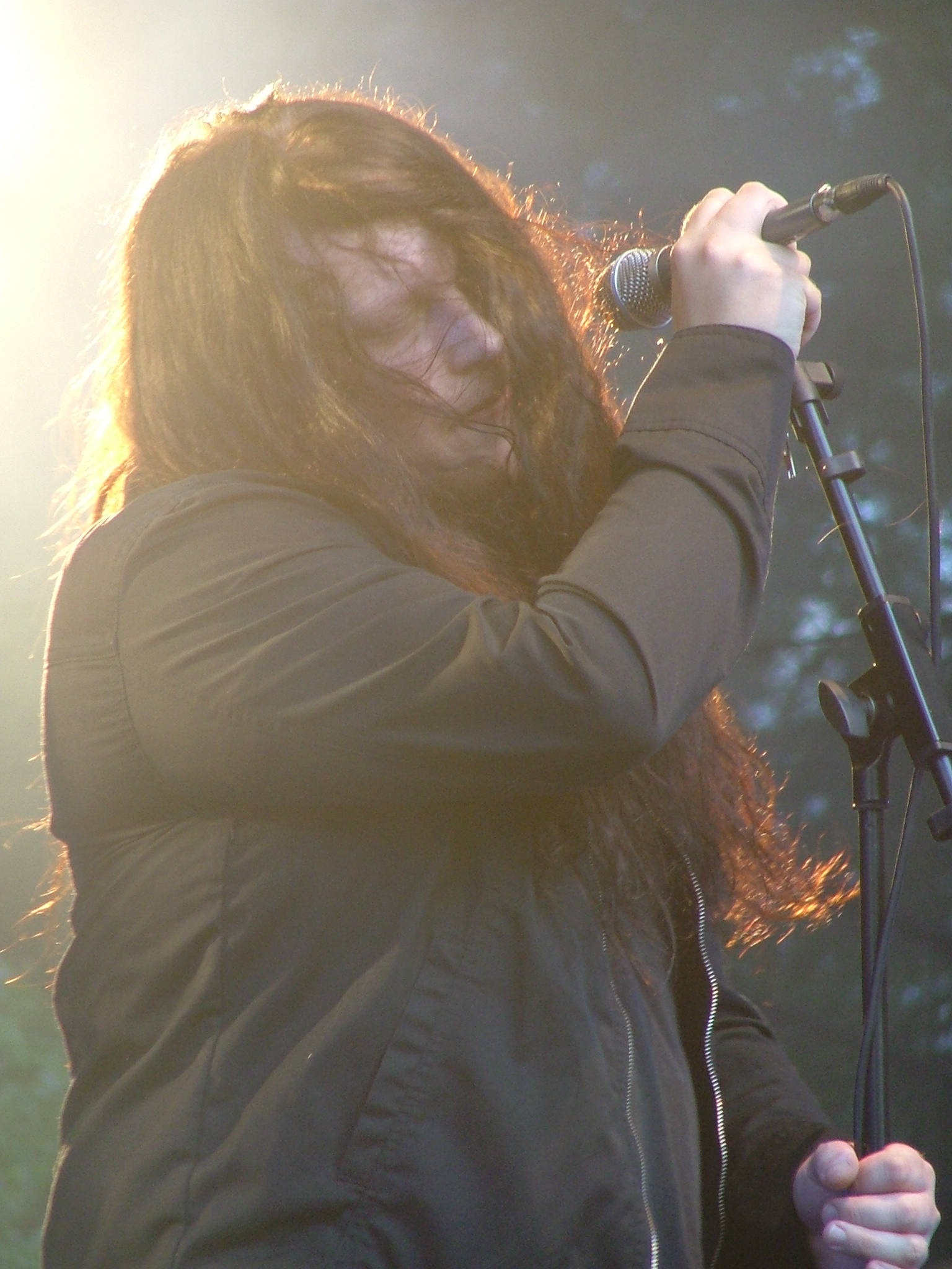 Swedish metal band Katatonia in Kuopio at Rockcock-musicfestival